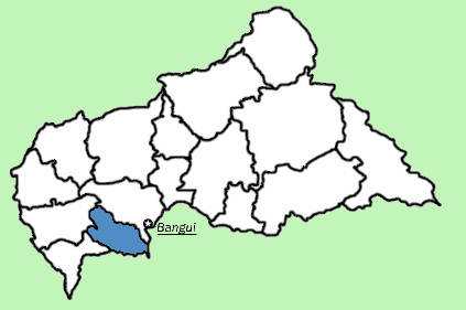 Map showing location of Lobaye Prefecture in Central African Republic